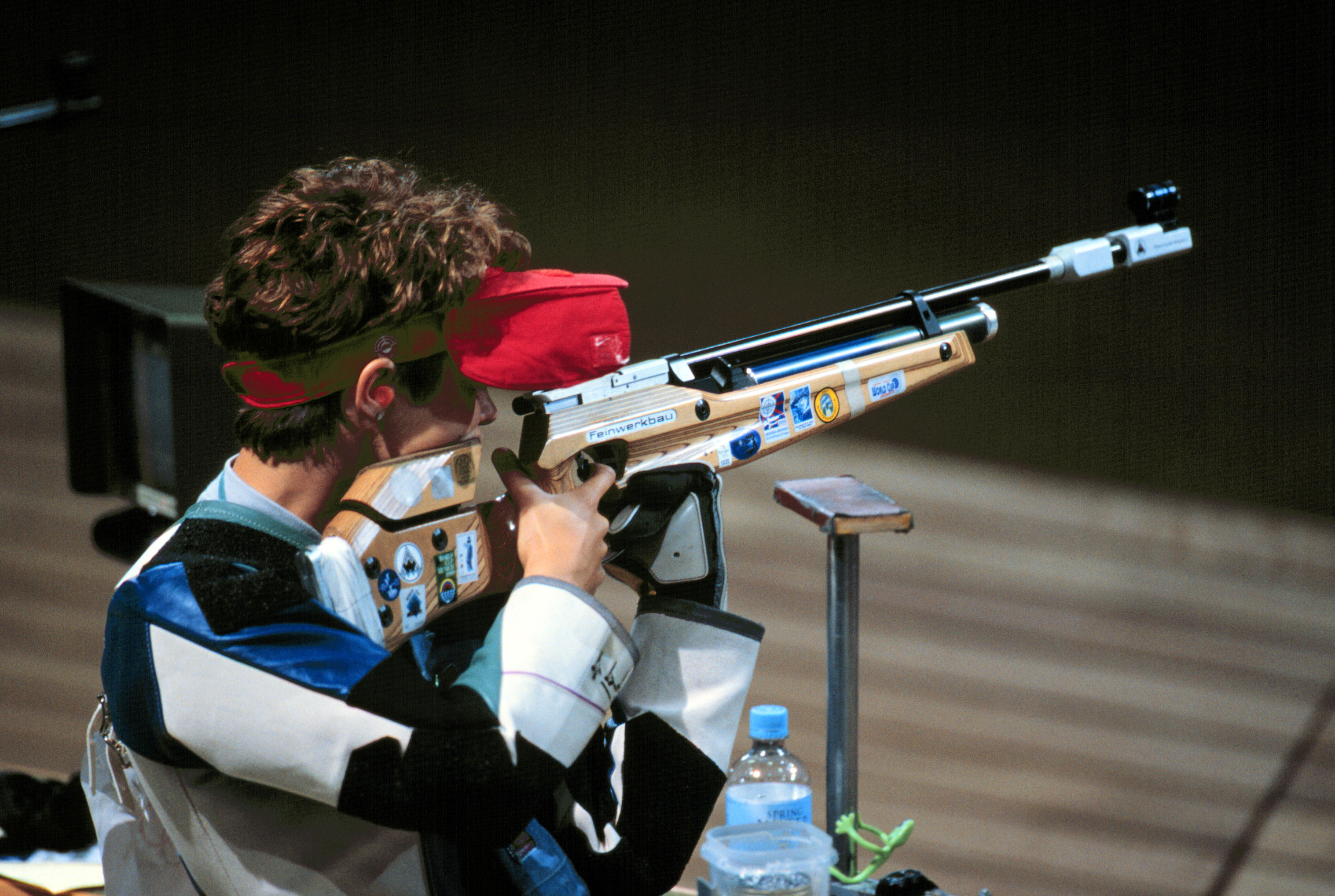 Nancy Johnson (sport shooter), Olympic shooter. Nancy Johnson aims carefully as she competes in the women's 10 meter air rifle competition at the 2000 Olympic Games in Sydney, Australia, on Sept. 16, 2000. Johnson is married to U.S. Army Staff Sgt. Ken Johnson, who is also on the U.S. Olympic shooting team.